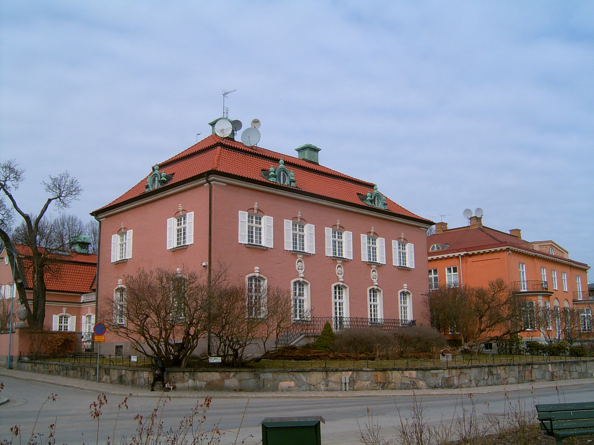 Tillbergska villan in Diplomatstaden, Stockholm.